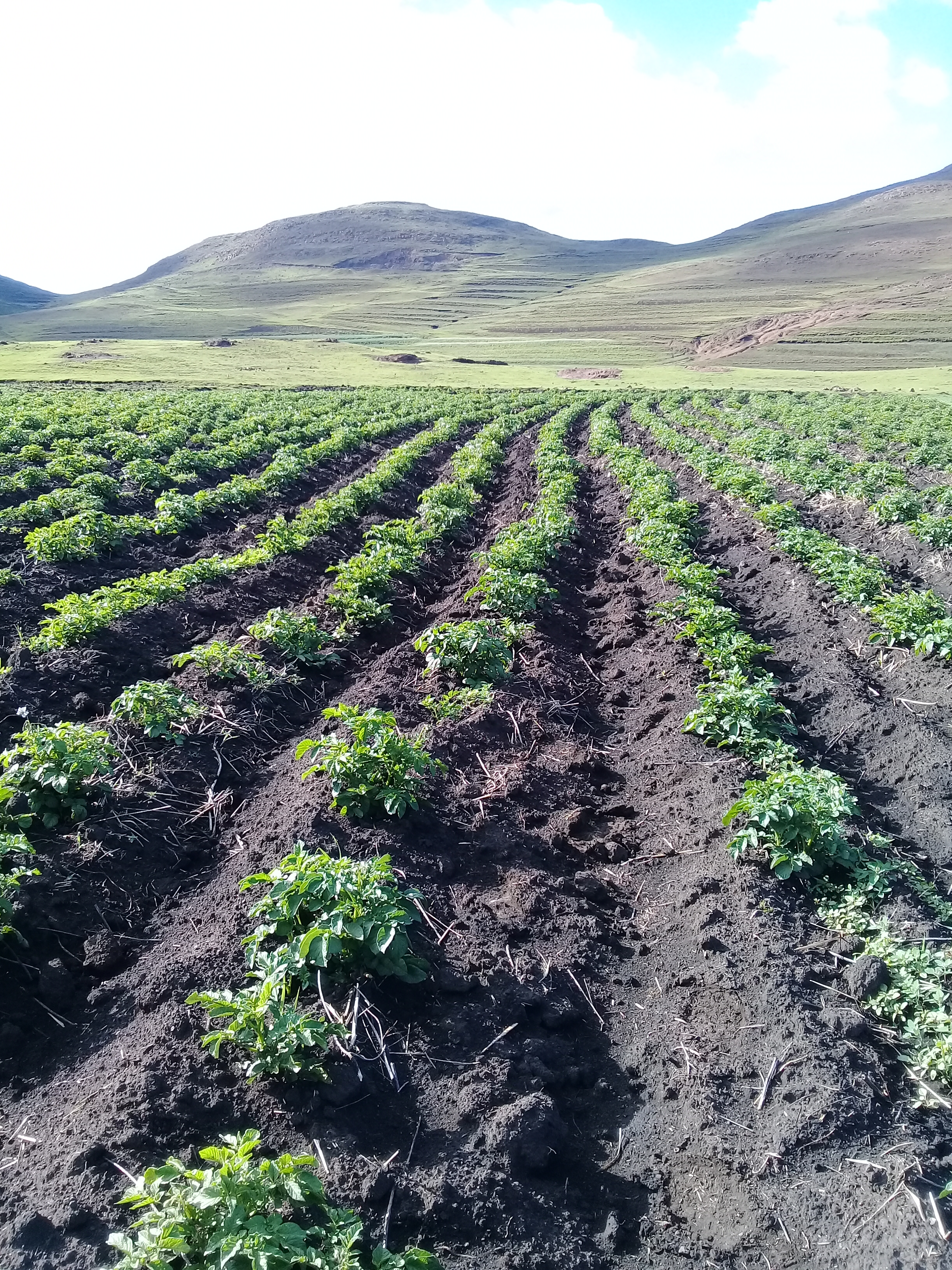 We are farmers and mostly we stock Potatoes. This is an image with the theme "Play" from: Lesotho